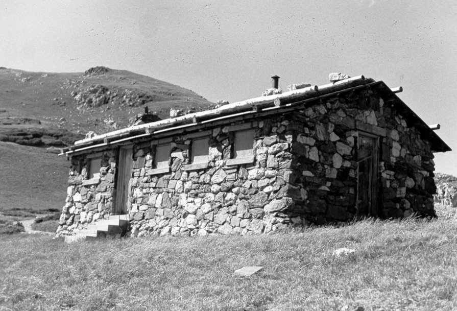 The Timberline Cabin on the Fall River Road, in Rocky Mountain National Park. This structure has been demolished.